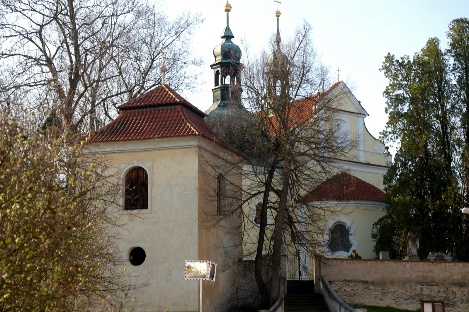 Church of Saint Leonard, village green, Cítov, Mělník District, Central Bohemian Region. Originally a Romanesque church from the beginning of the 13th century, rebuilt in Baroque style in 1753. Part of the monument is the church, the prismatic tower belfry, the access staircase and the fencing wall.